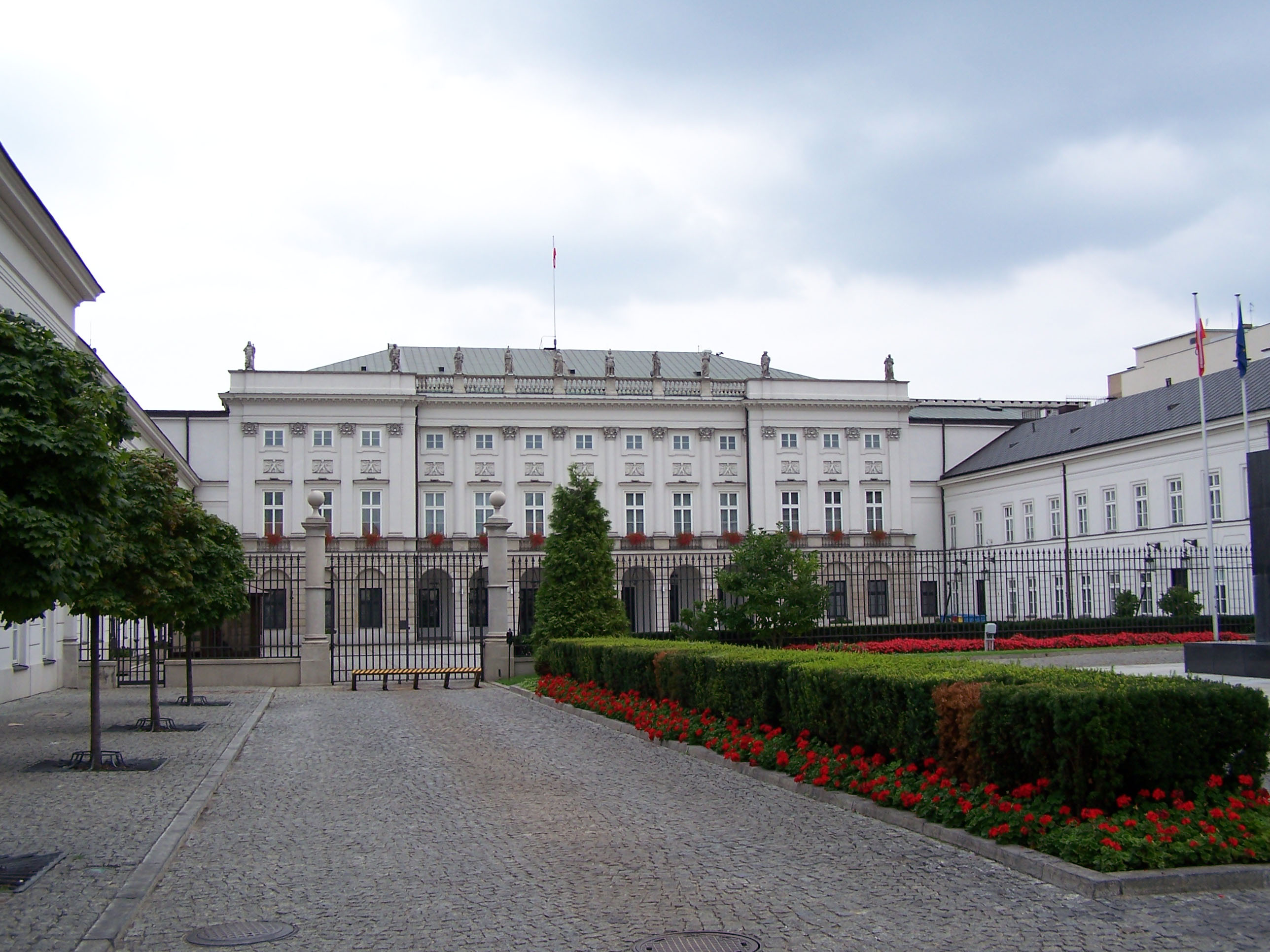 Presidential Palace in Warsaw, Poland